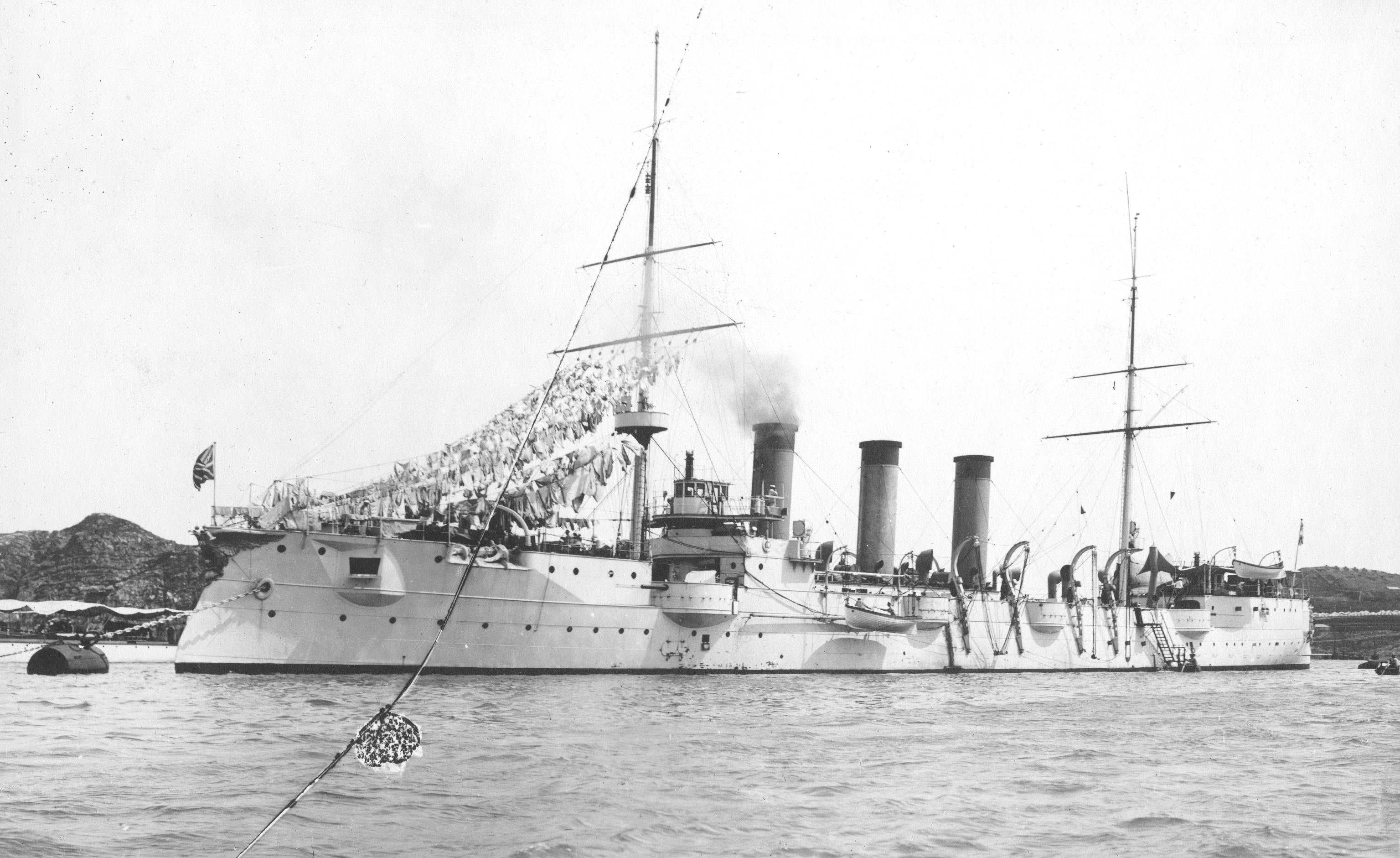 Imperial Russian cruiser Boyarin.